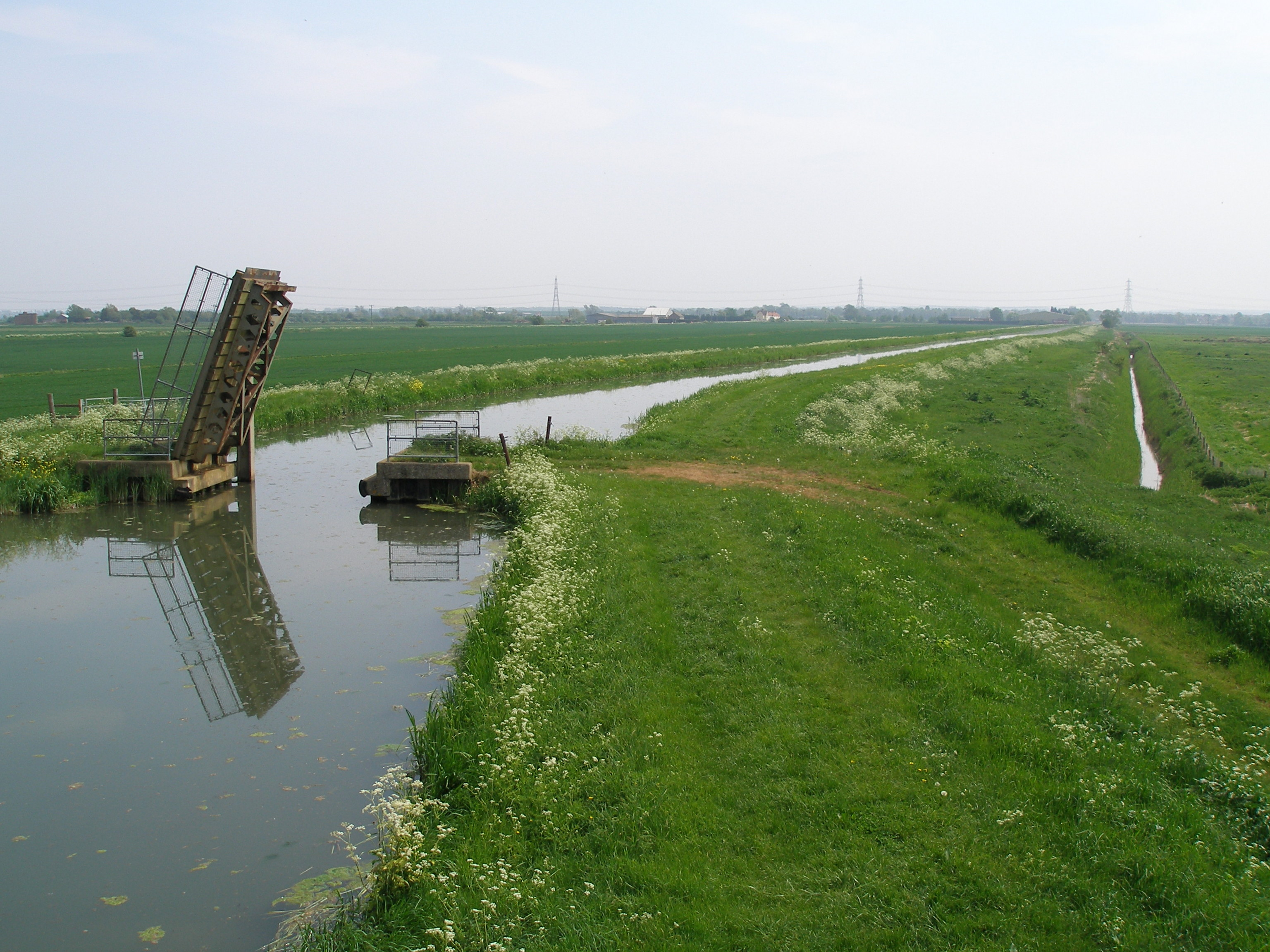 View of Swaffham Internal Drainage Board channel, Commissioner's Drain and Cock-up Bridge near Wicken Fen